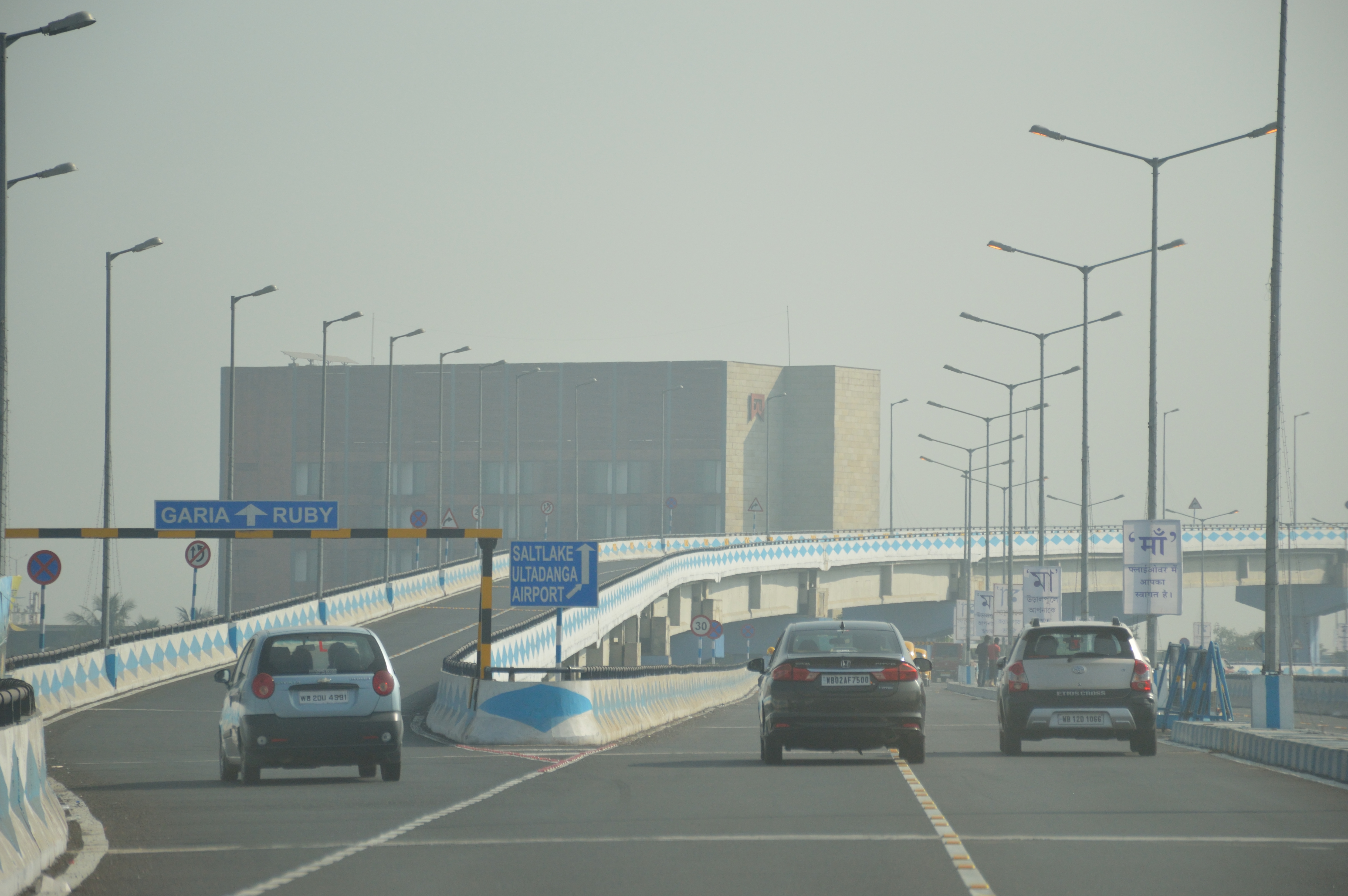 The Parama Island Flyover (officially Maa) is 4.5-kilometre-long flyover in Kolkata. It was opened on Thursday, 12 October 2015 at 12 Noon, by the WB Chief Minister Mamata Banerjee. It took twelve years to build.